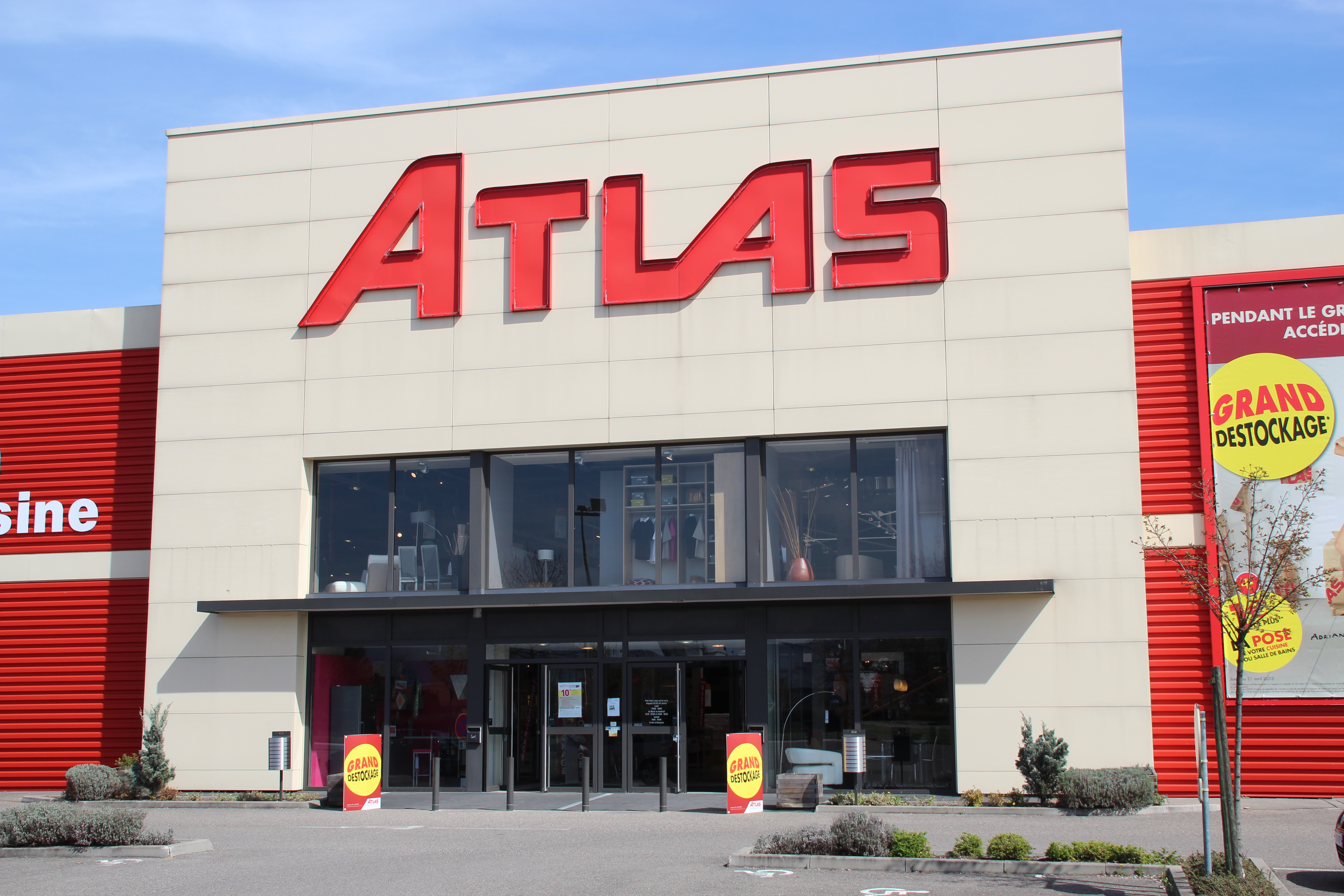 Atlas shop in Colmar, France.